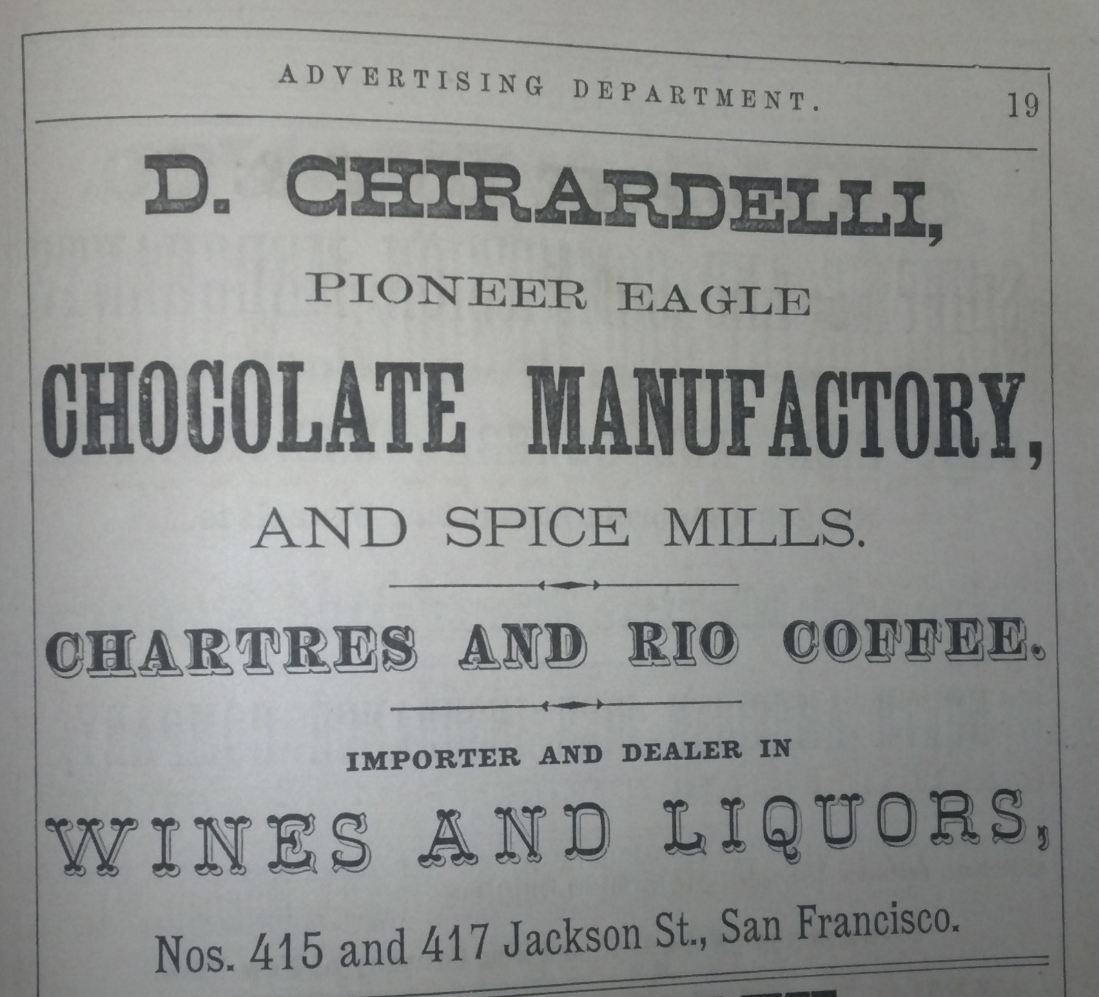 Advertisement for D. Ghirardelli's Pioneer Eagle Chocolate Manufactory from Langley's San Francisco Directory, 1871.